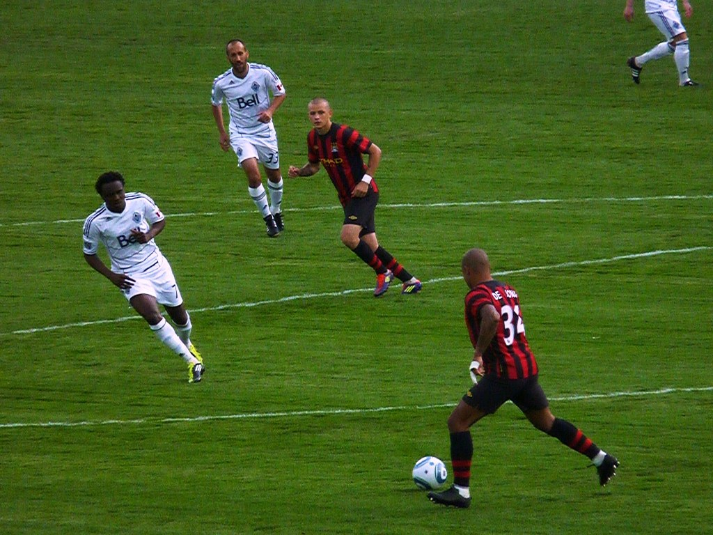 Nigel de Jong with the ball in friendly game Vancouver Whitecaps-Manchester City